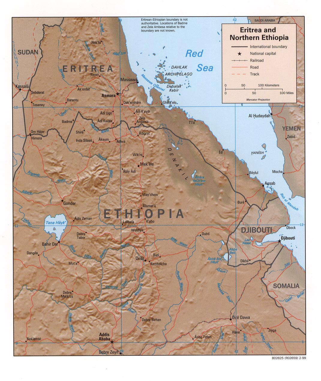 Eritrea and Northern Ethiopia (Shaded Relief), 1999